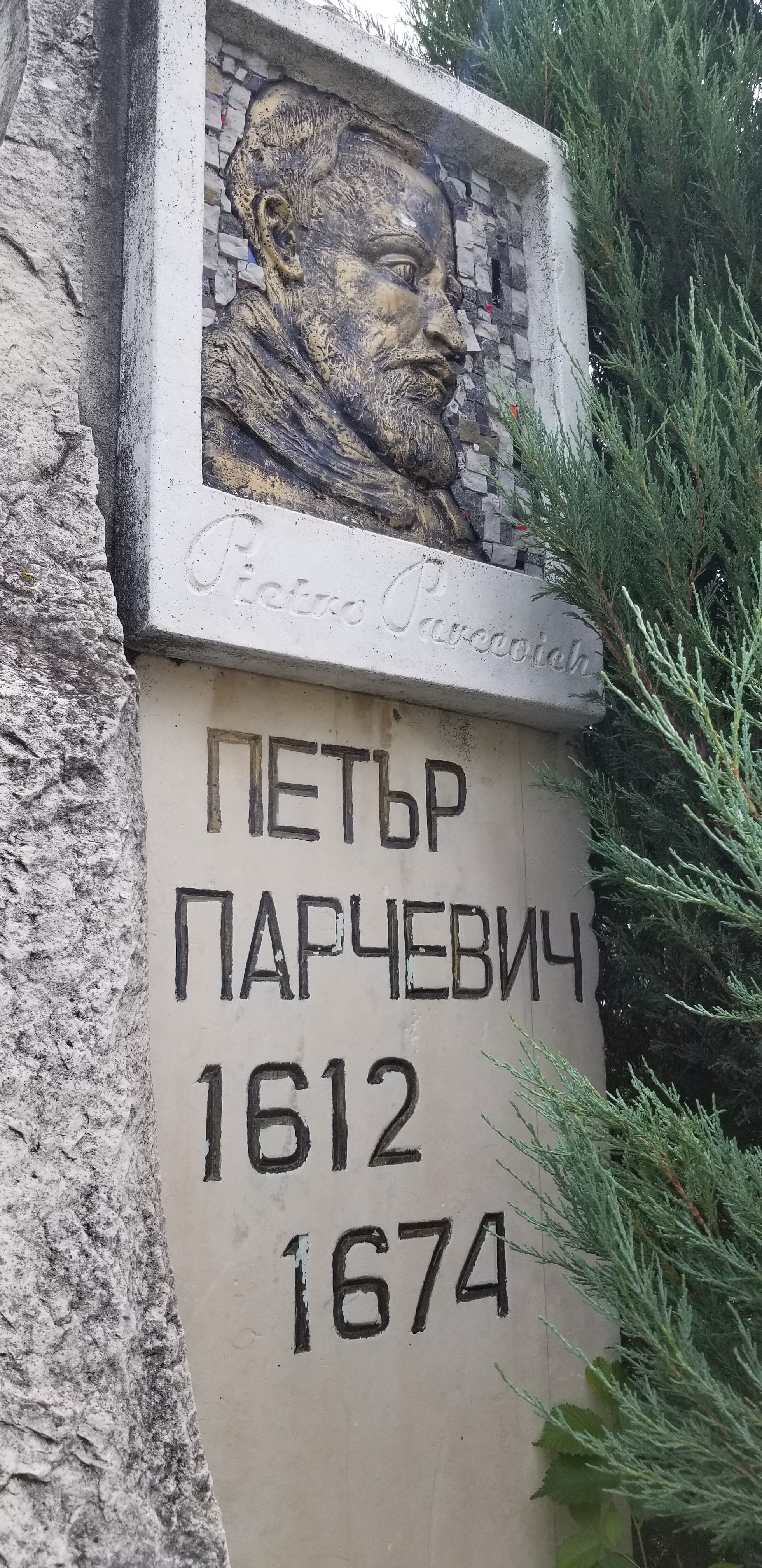 Plaque of Parchevich in Rakovski